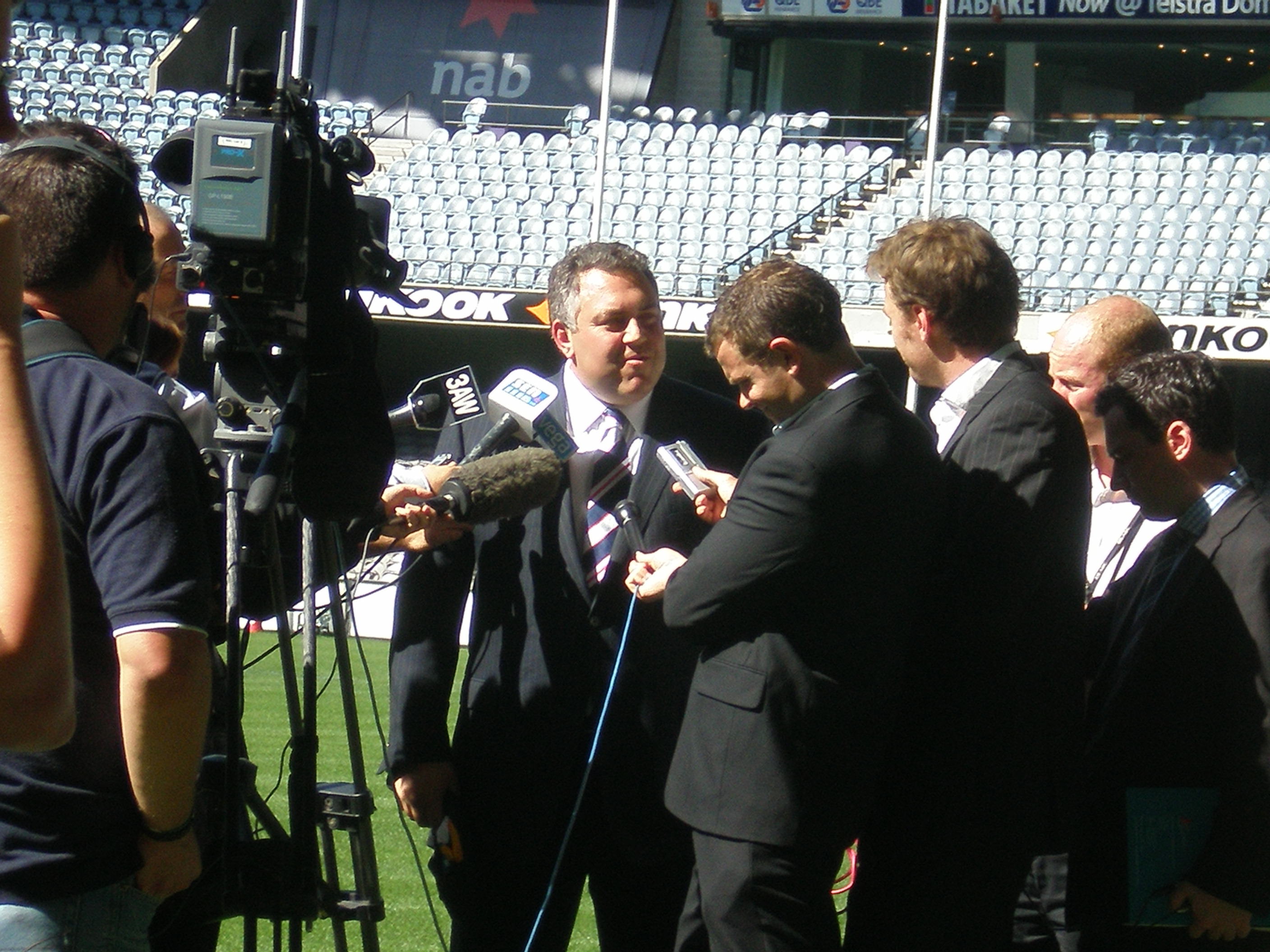 Joe Hockey in a press conference on the ground at Telstra Dome, Melbourne